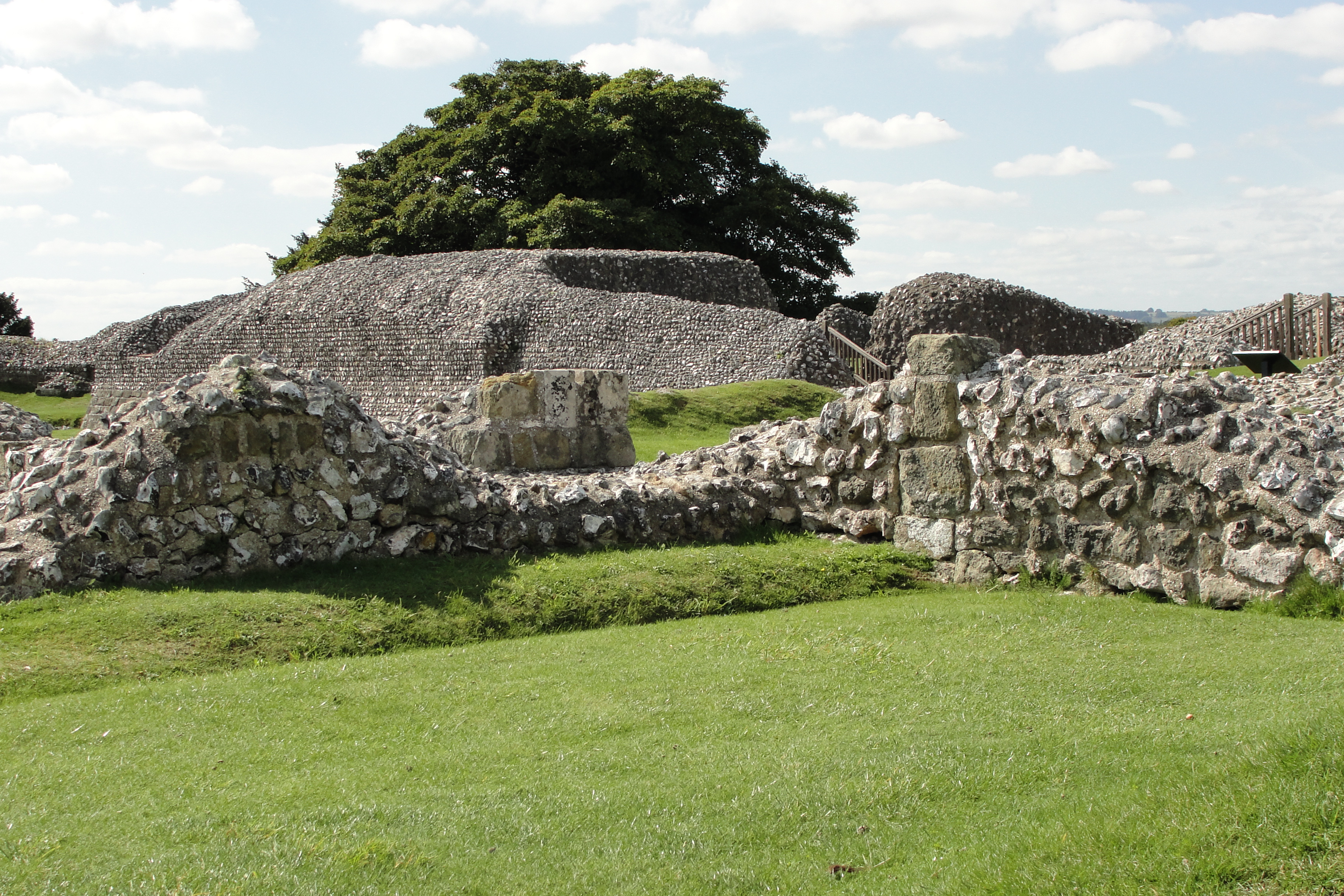 The remains of the Keep in the back, behind the ruined walls of the Courtyard House